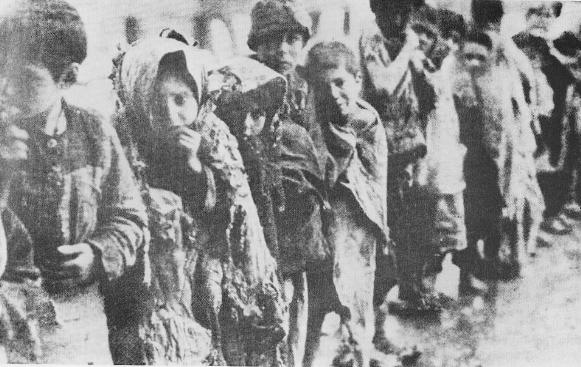 Children waiting in the snow for admission into "Orphan City."